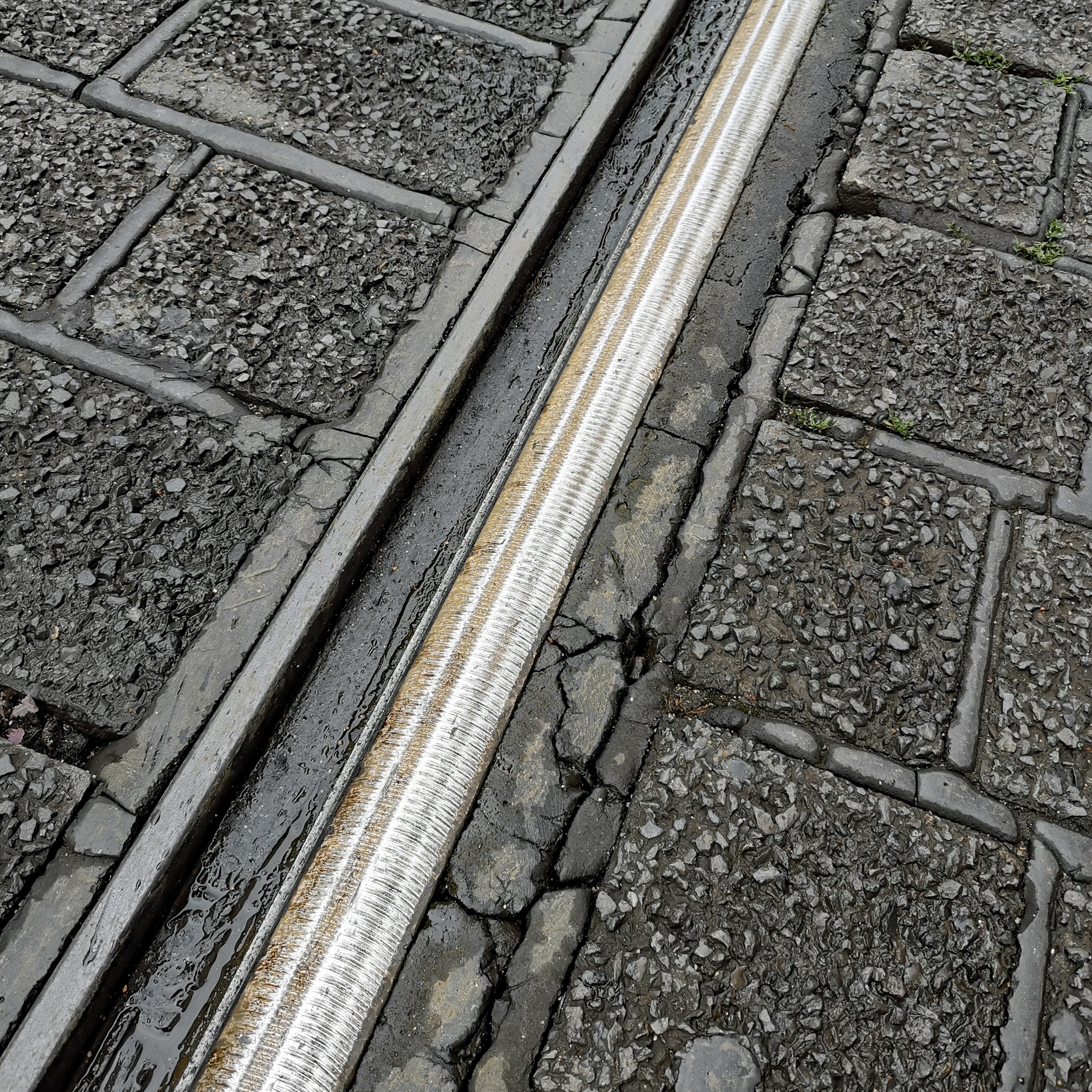 Tram rail grinded (Halle, Saxony-Anhalt, germany)